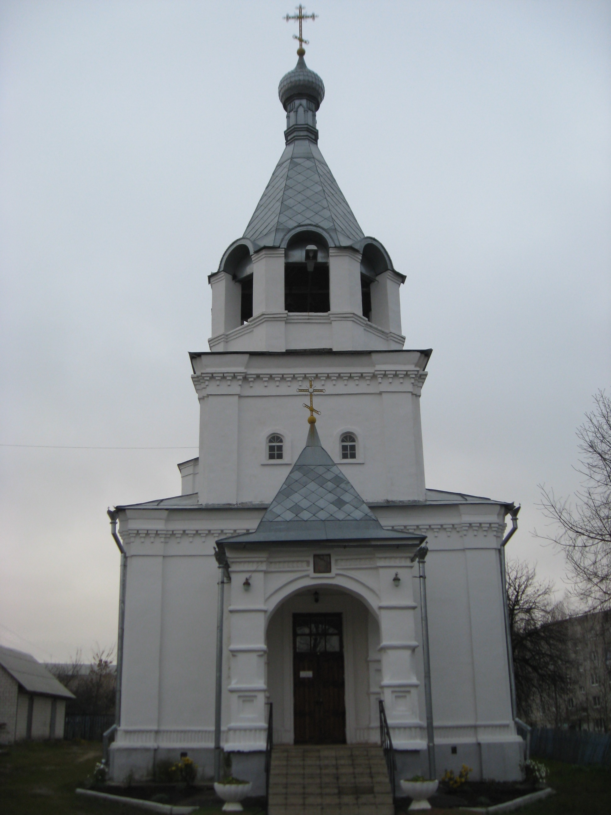 Church of the Annunciation, Surazh